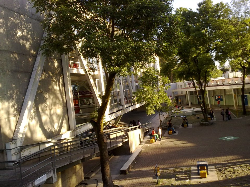 biblioteca y pimponeras prepa 6